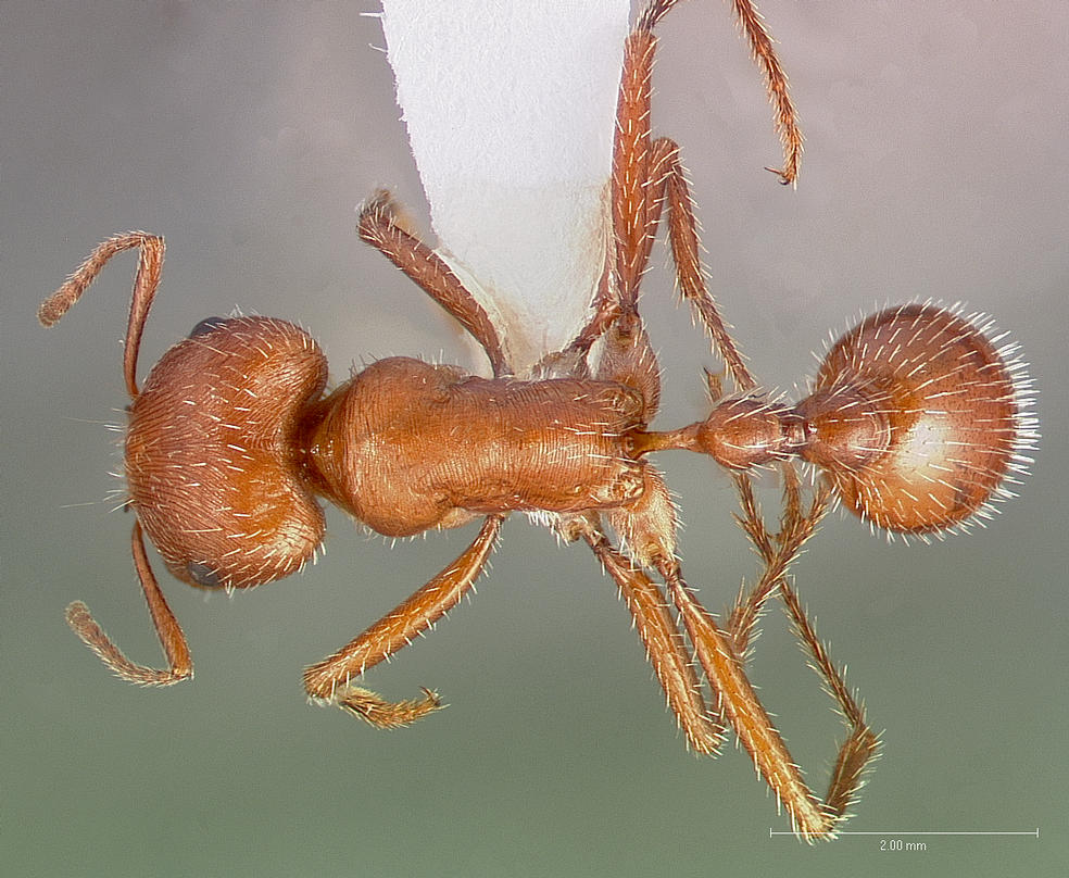 Dorsal view of ant Pogonomyrmex maricopa specimen casent0005712.